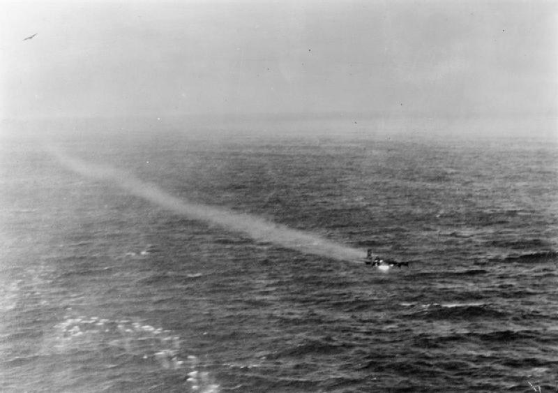 Flames and smoke issue from a German Focke Wulf Fw 200C-4 Kondor (WNr. 0186, coded F8+ER) of 7./KG 40 as it dives towards the sea after being shot down by two Bristol Beaufighter Mark VICs of No. 248 Squadron RAF over the Bay of Biscay on 12 March 1943. None of Lt. Ernst Rabolt's crew survived.